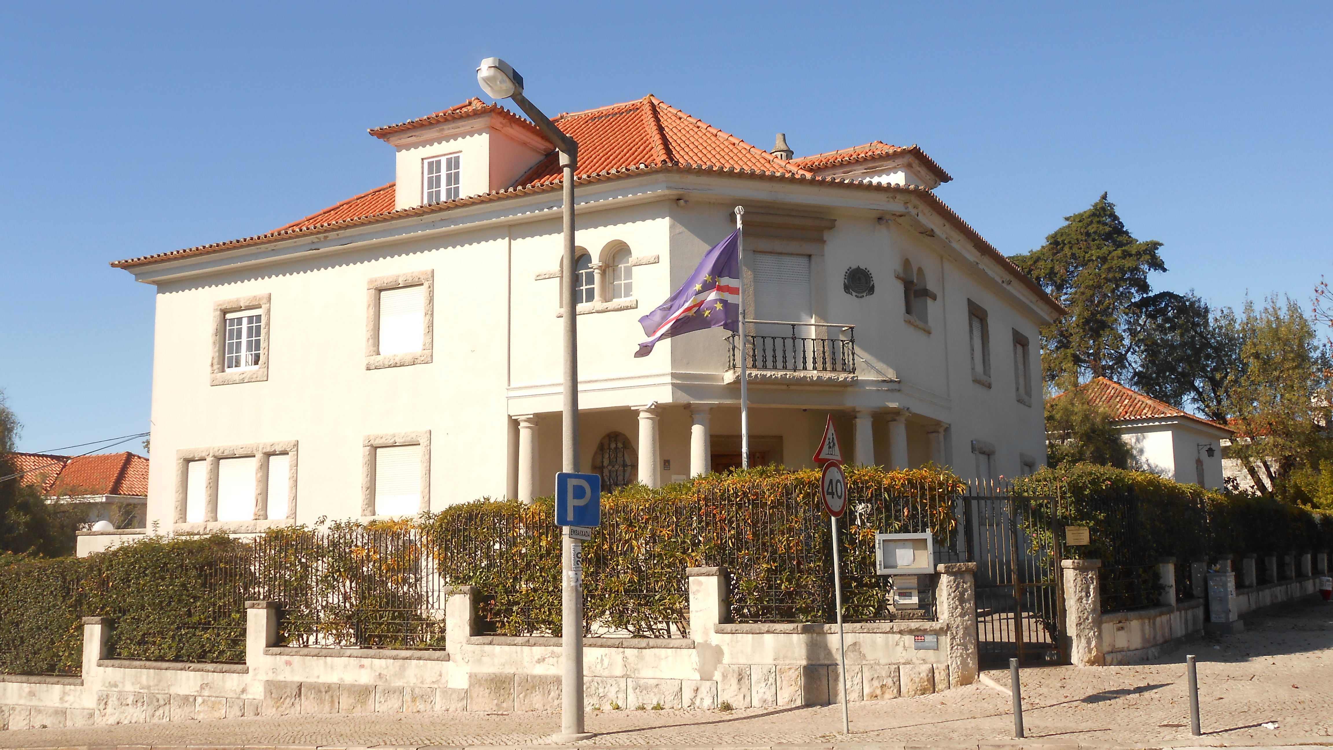 The Cape Verdean Embassy in the Avenida do Restelo in the Belém neighbourhood.